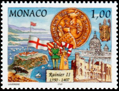 Rainier II